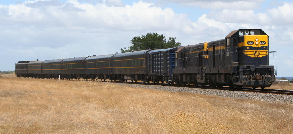 Heritage Victorian Railways locomotives and carriages restored by the Seymour Railway Heritage Centre